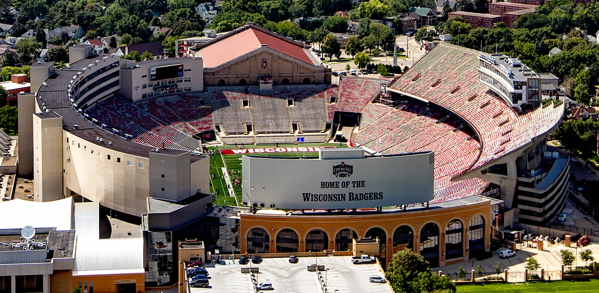 Aerial photograph of Camp Randal Stadium, home of the Wisconsin Badgers